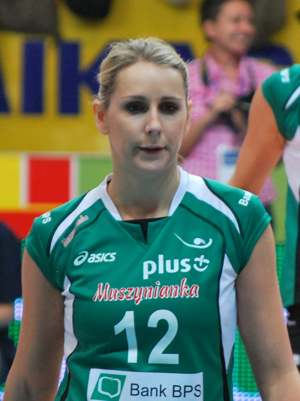 Milena Radecka, polish volleyball player